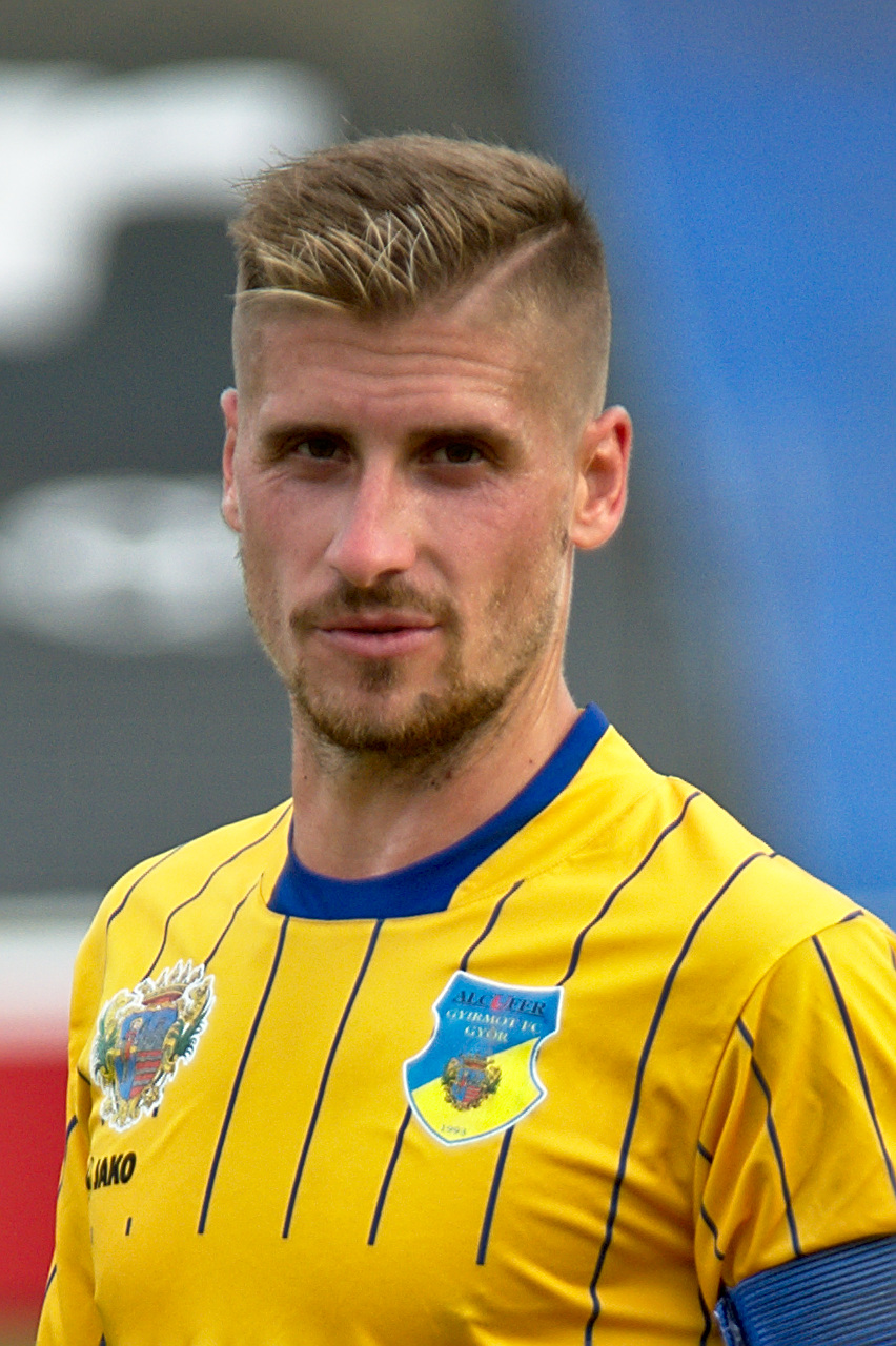 Friendly match Admira Wacker Mödling vs. Gyirmót FC, 2017-06-28, Picture shows: Kiss Máté